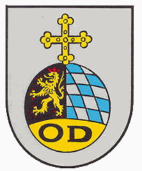 Coat of arms of Oberndorf (Pfalz)